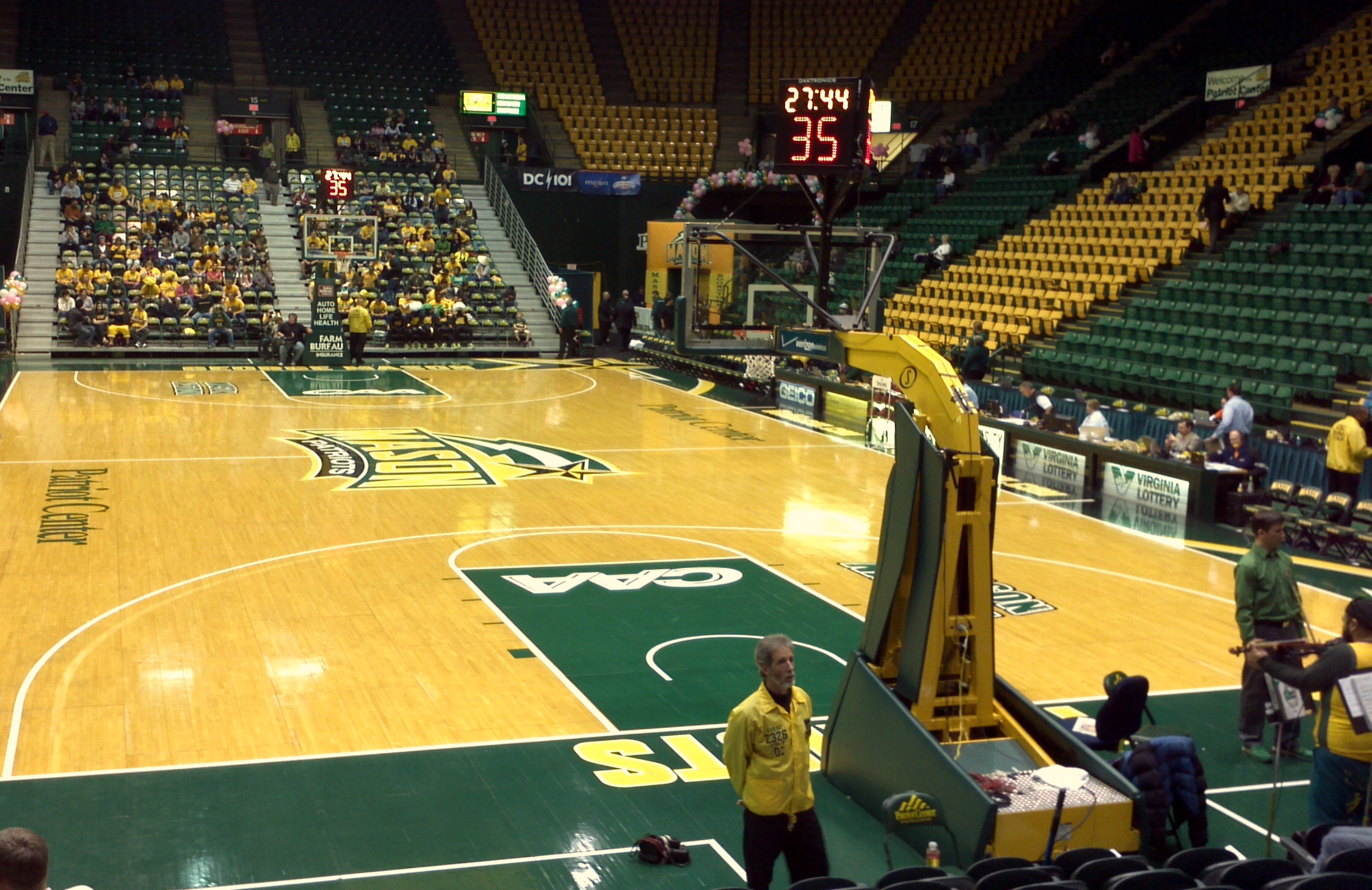 Mason vs Bucknell 11/30/11